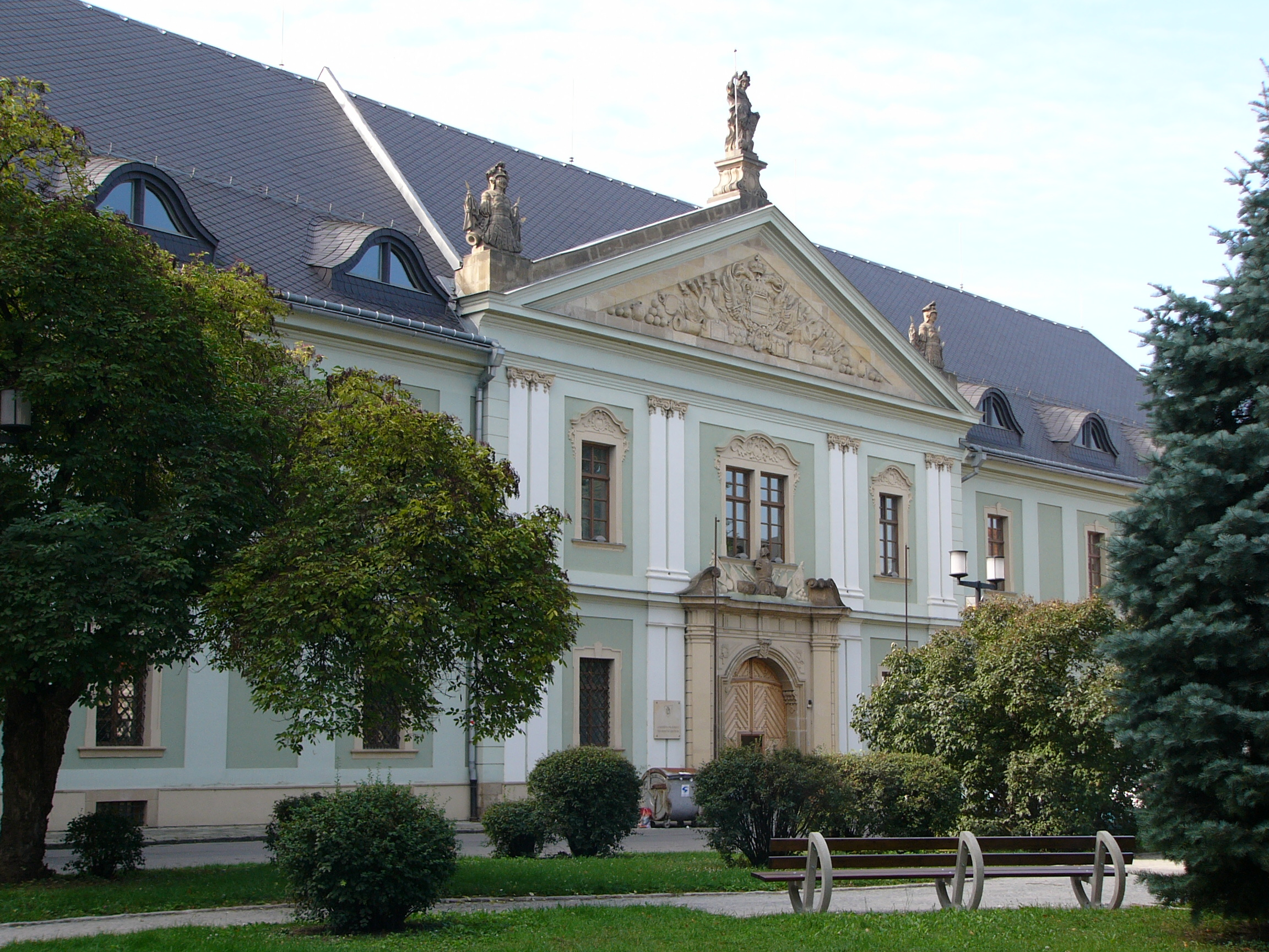 Information centre of Palacky University in Olomouc (Czech Republic). It is a historical building of armory.